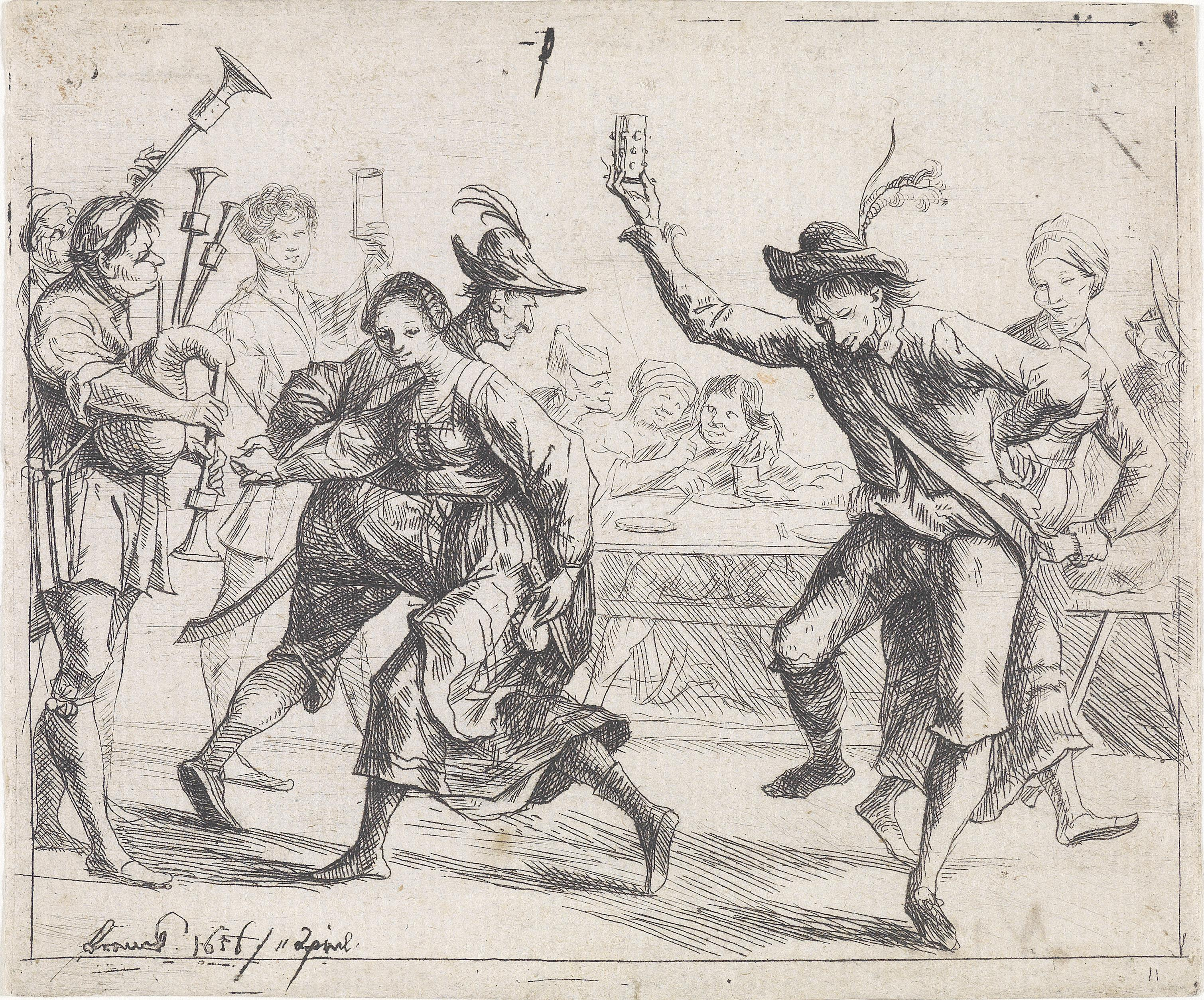 Hans Ulrich Franck: „Der Soldatentanz“, 1656; from a series on the 30 Years' War, Etching, 10.7 x 12.4 cm